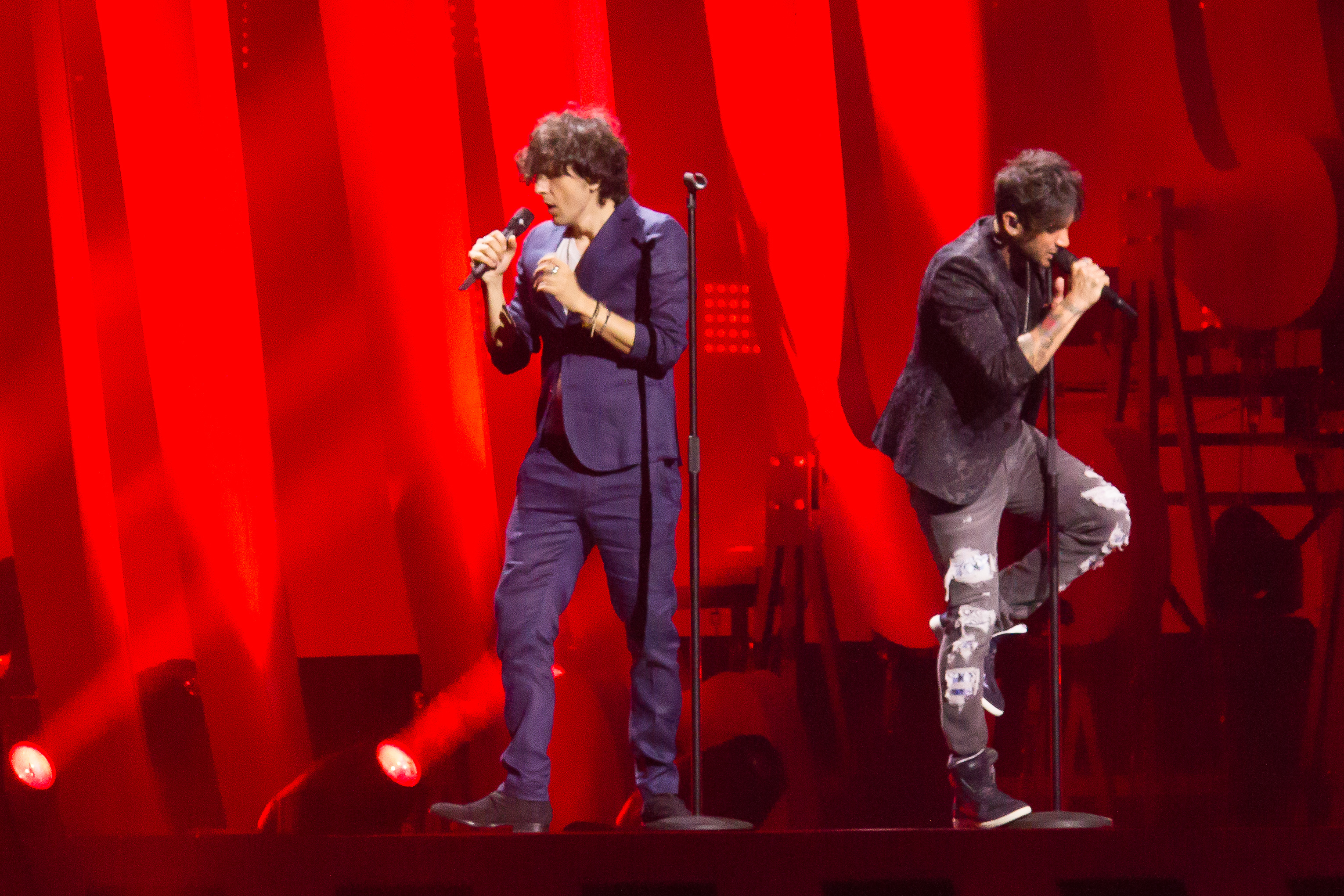 Ermal Meta and Fabrizio Moro representing Italy with the song "Non mi avete fatto niente" during a rehearsal before the second semi final of the Eurovision Song Contest 2018 in Lisbon.